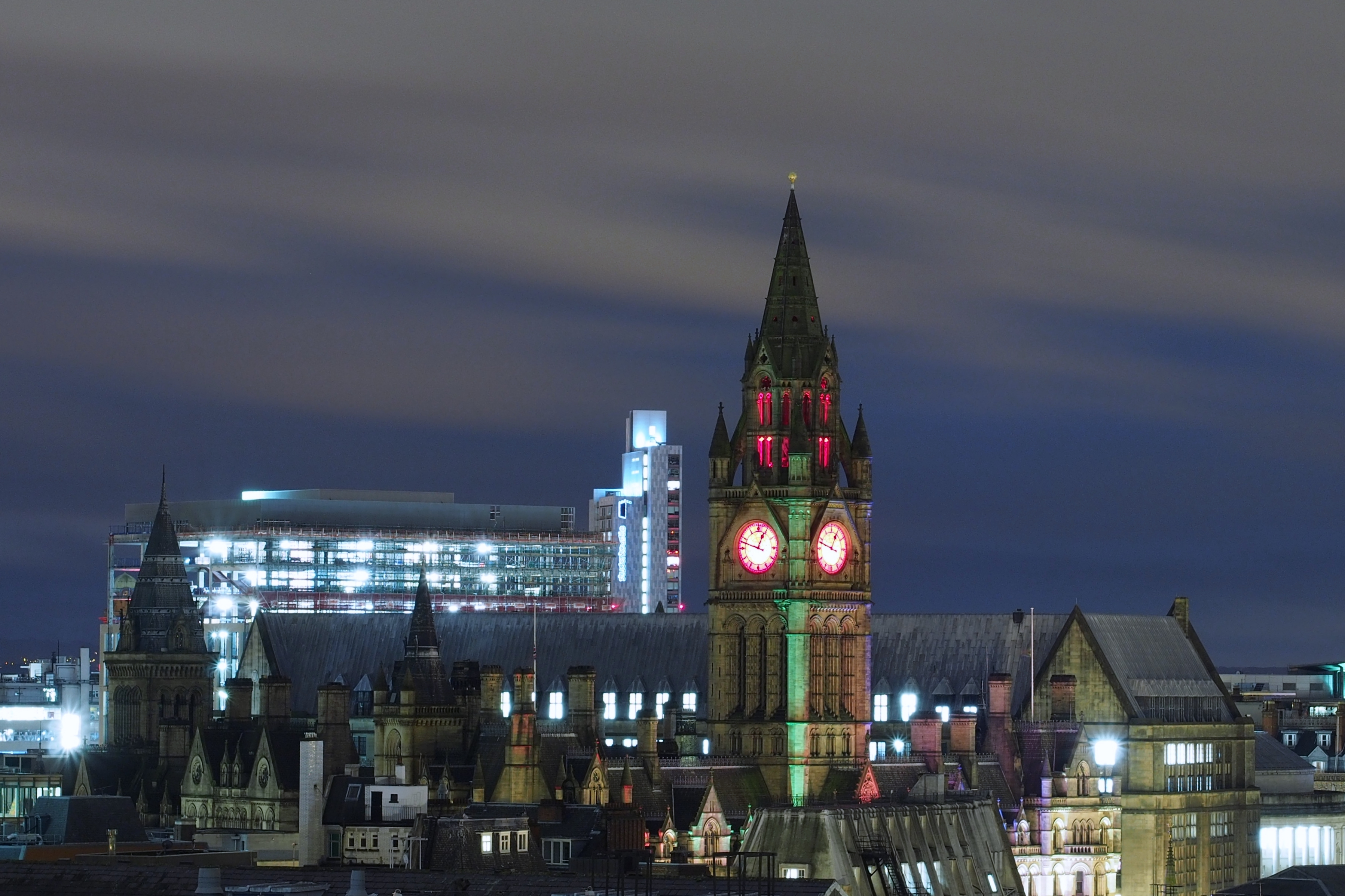 Manchester Town Hall by night from The Renaissance Hotel, Blackfriar Street